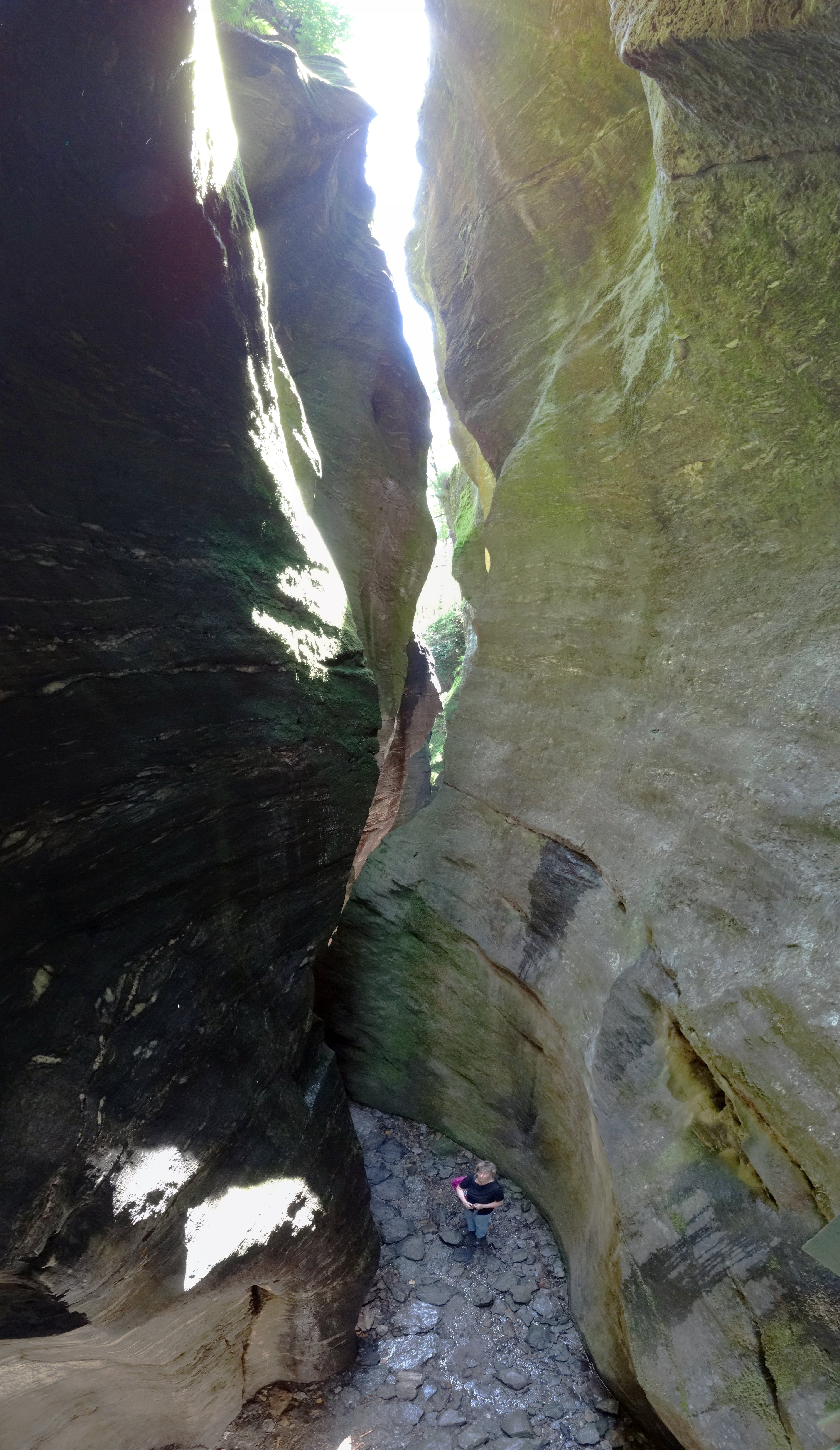 in the south canyon of Uriezzo